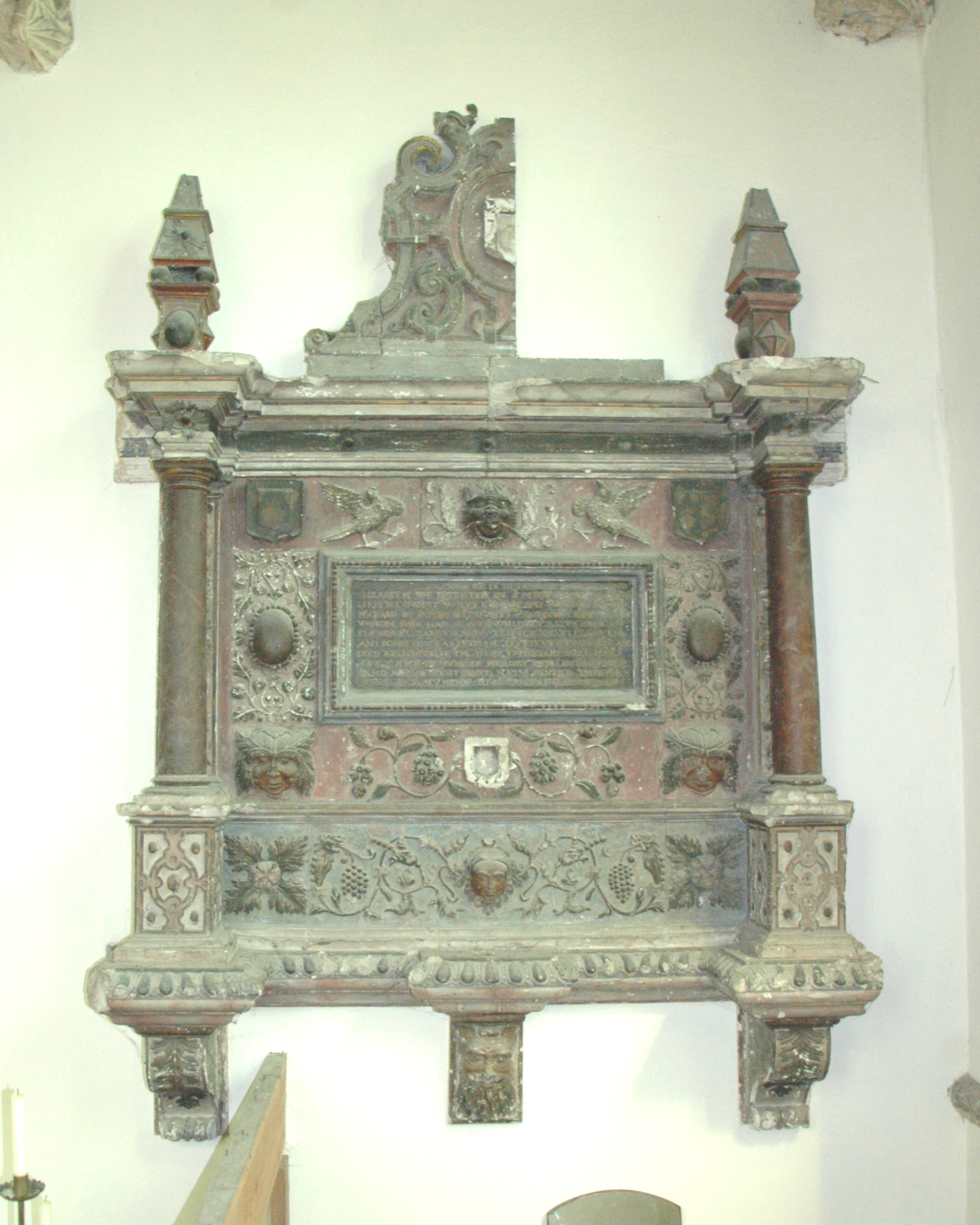 Church of England parish church of St Swithun, Merton, Oxfordshire: monument to Elizabeth Poole, died 1621